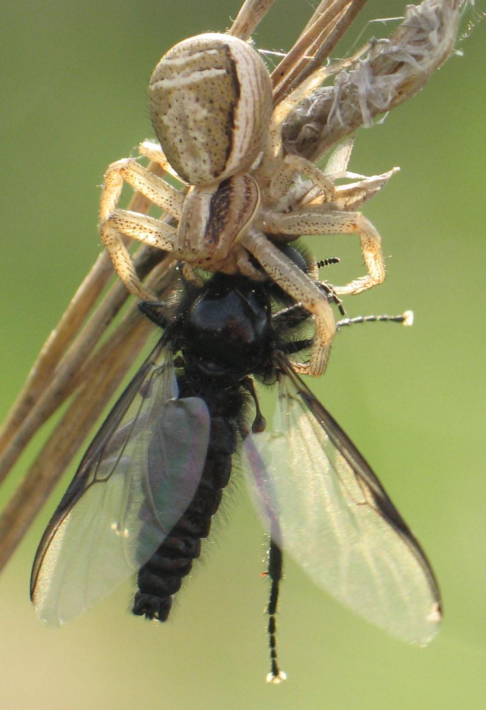 Xysticus ulmi with prey (possibly Bibio marci) near Dreieich-Götzenhain (Germany)